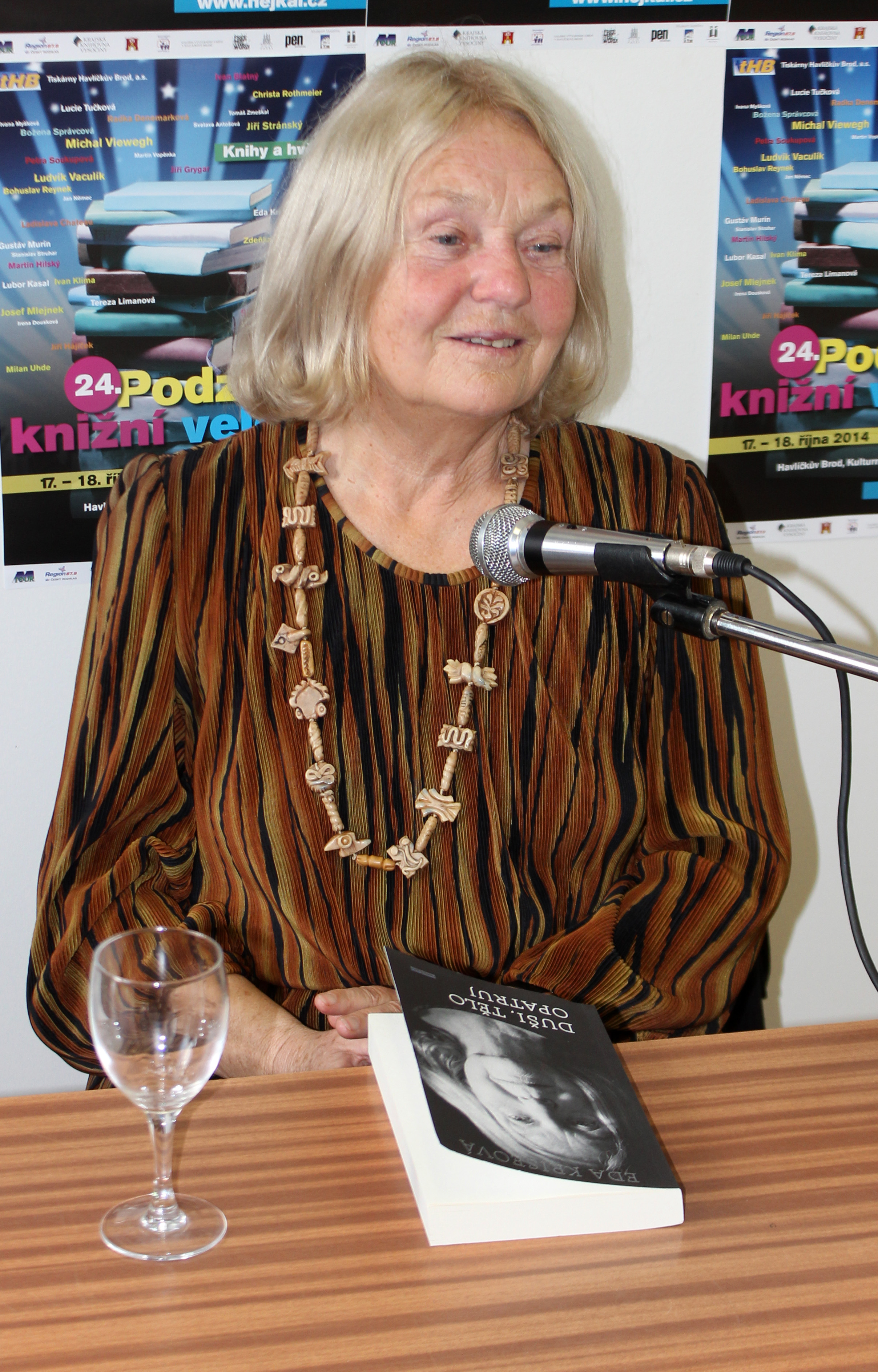 Czech writer Eda Kriseová.